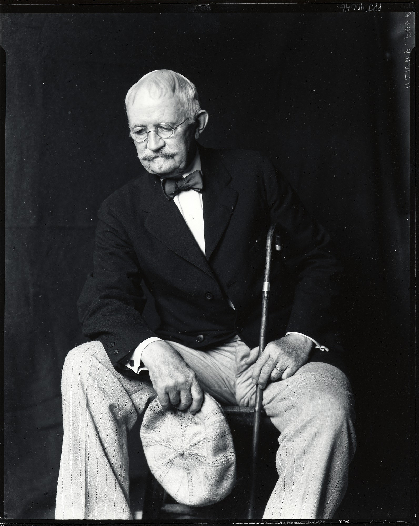 "Henry Rankin Poore (photographed by Peter A. Juley & Son)," circa 1934, Peter A. Juley & Son Collection, Image #J0110046.The Peter A. Juley & Son Collection of photographs was donated to the Smithsonian American Art Museum.